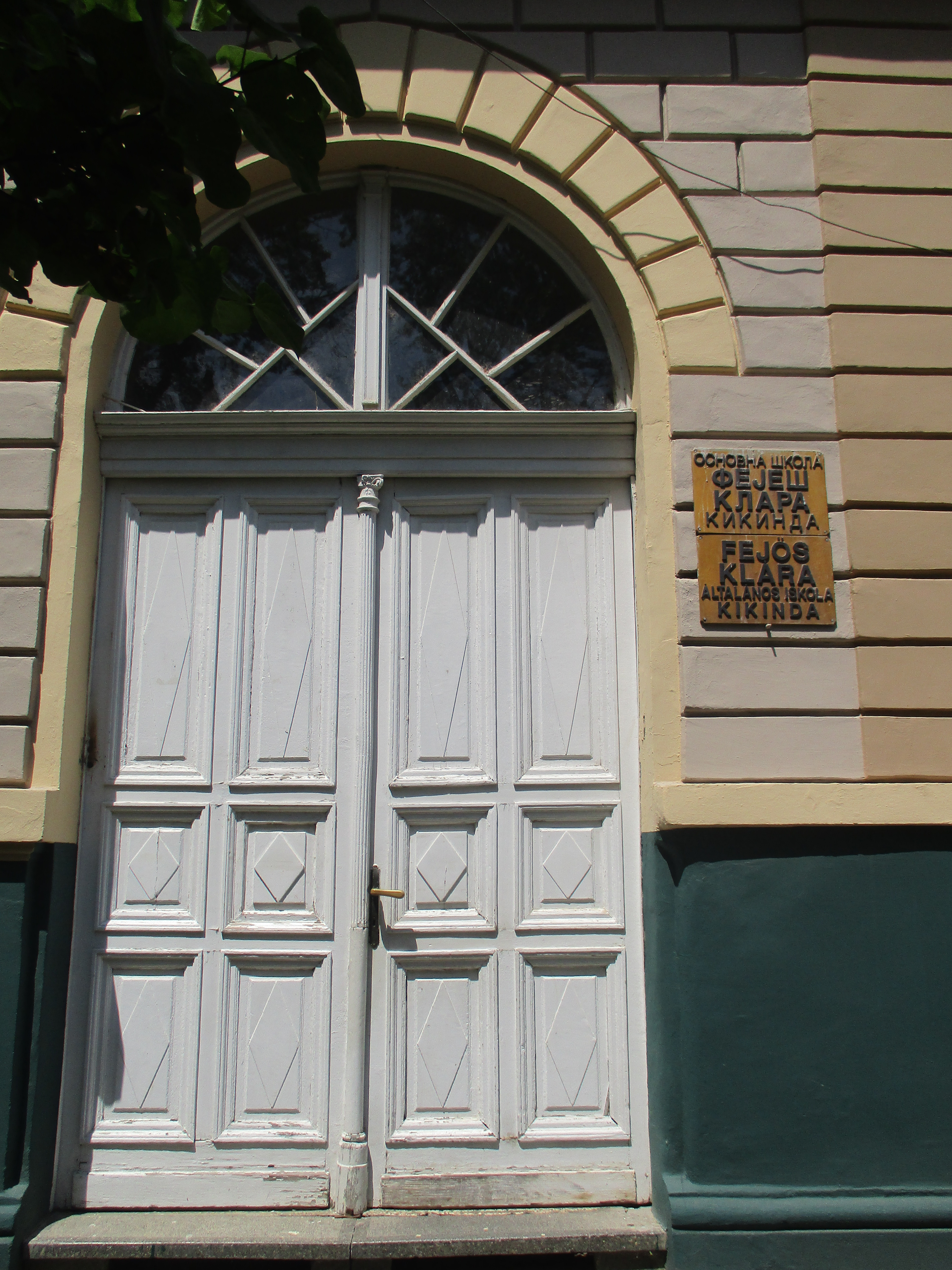 Main entrance to Primary School Feješ Klara in Kikinda.